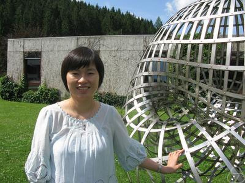 Hee Oh, Oberwolfach 2010